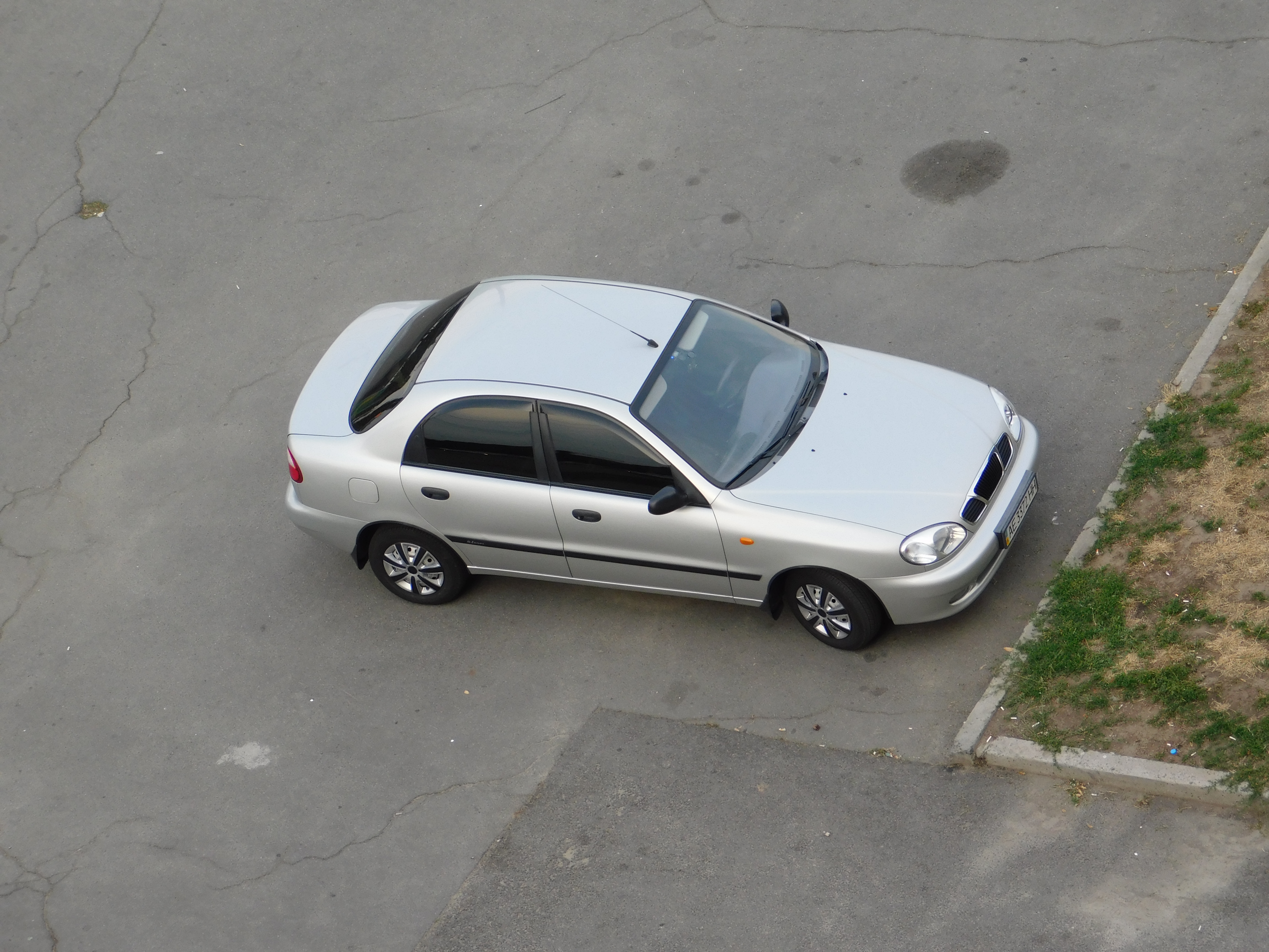 Daewoo Lanos, Dnipro, Ukraine; 16.07.2019.jpg